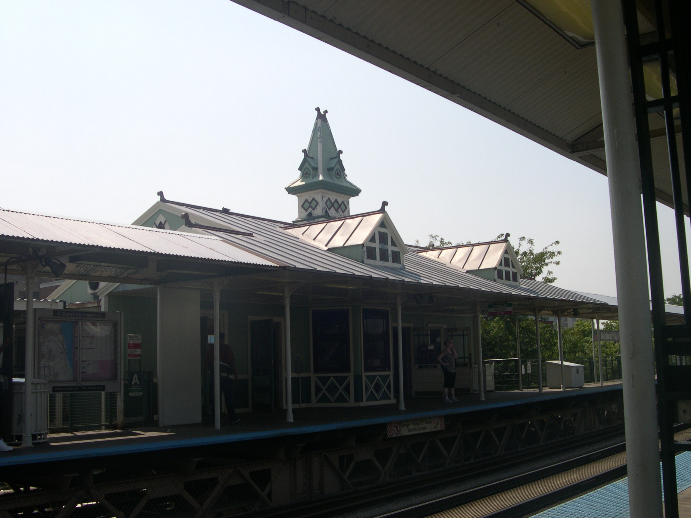 Ashland CTA Station on the Lake Street elevated rail line, Chicago, Illinois.